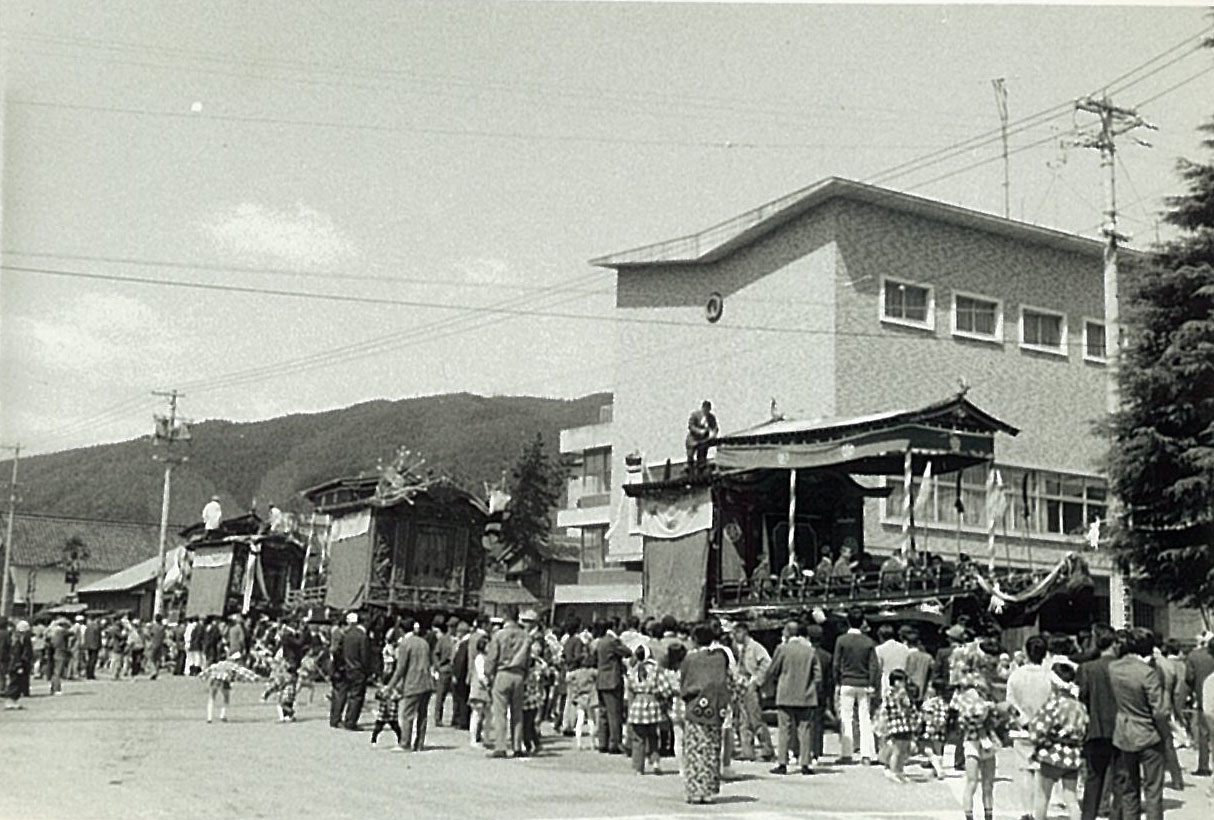 The Danjiri festival of the 1970's in Yaotsu, Gifu prefecture in Japan.